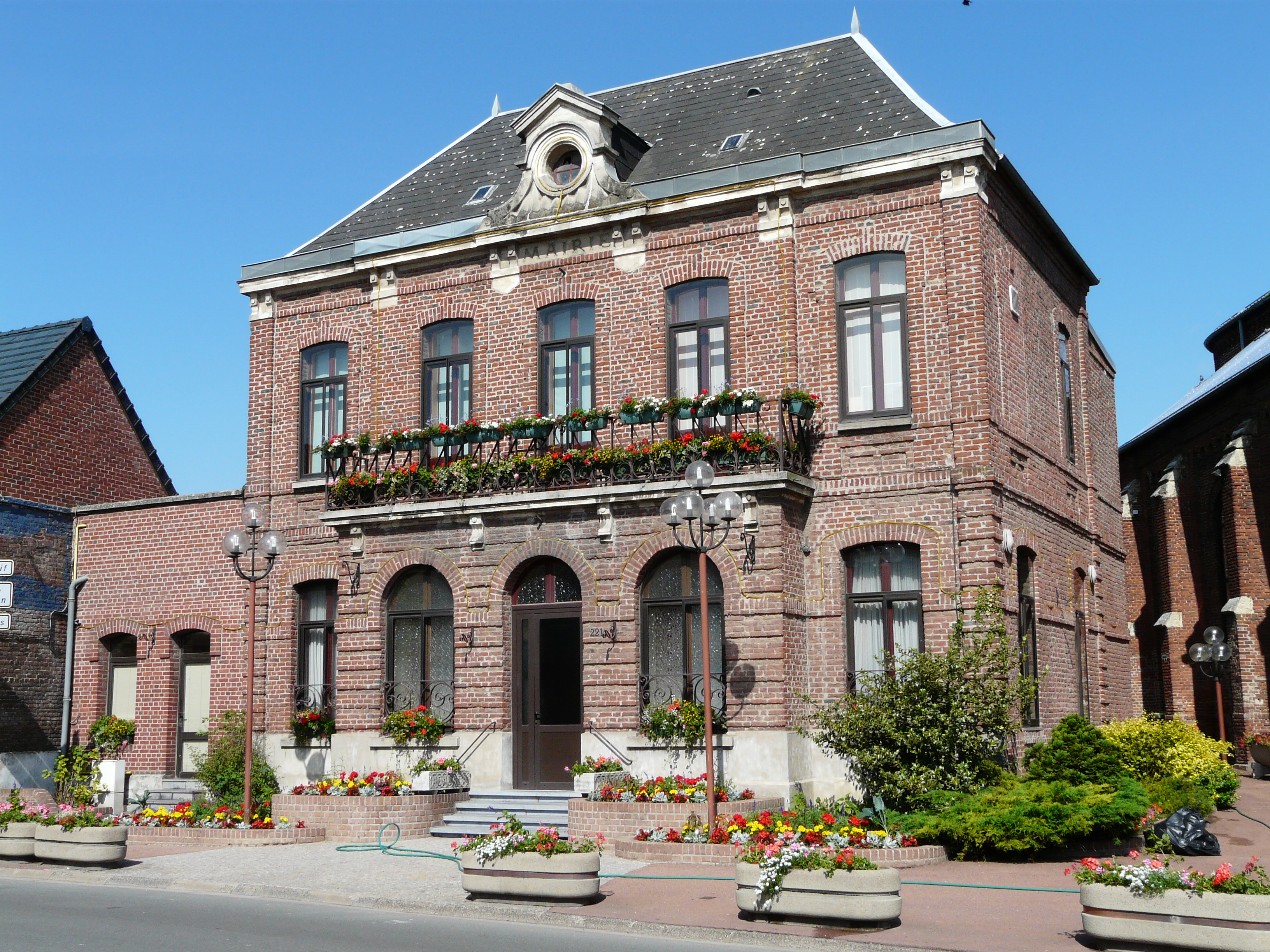 Townhall in Escaudoeuvres, Nord, France